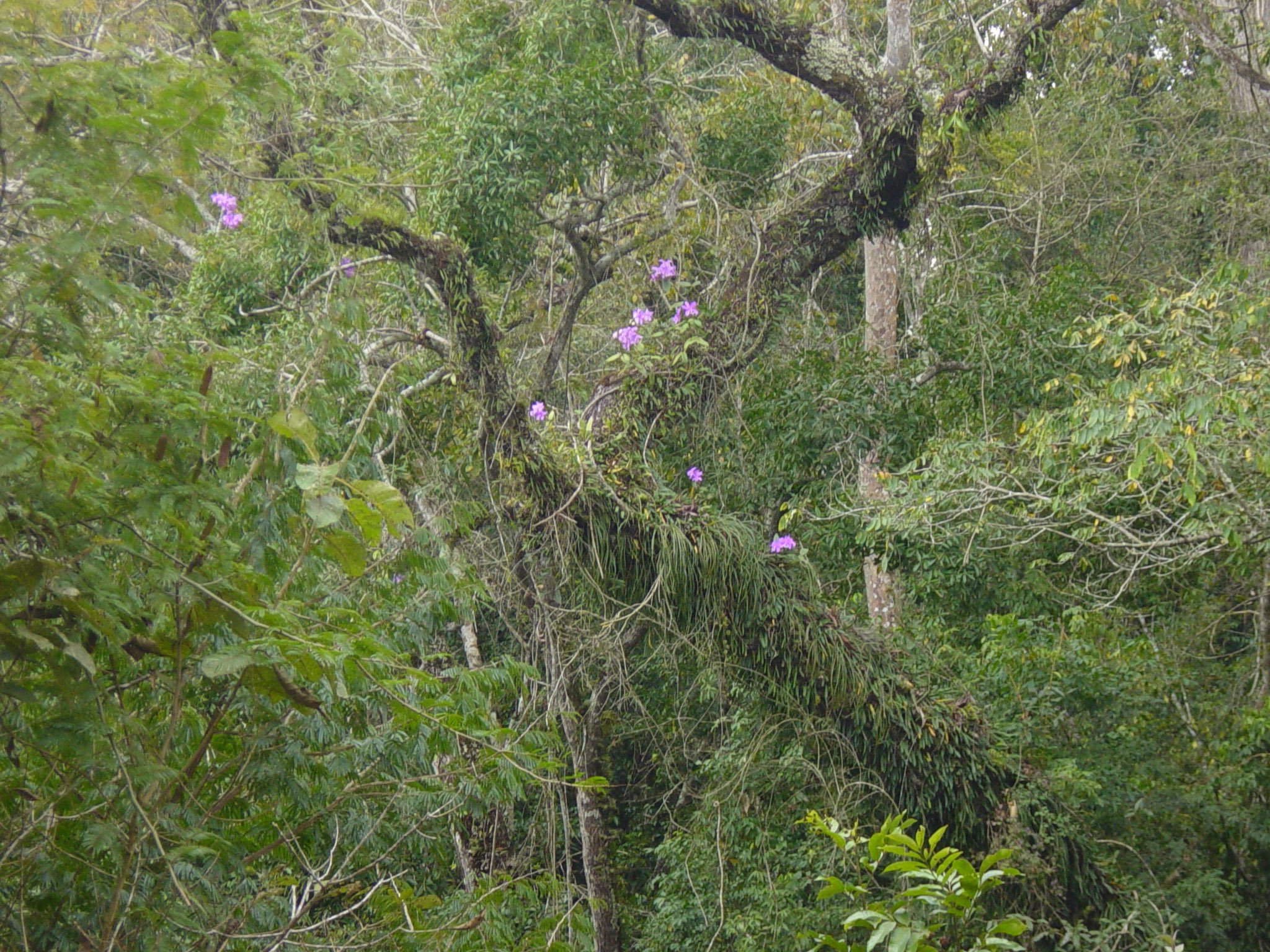 Cattleya lodgigesii - habitat in Sao Paulo, Brazil